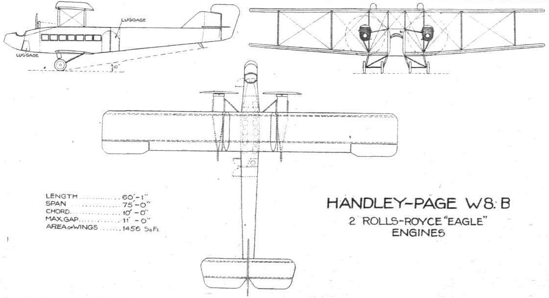 Three-view drawing of Handley Page W.8b.